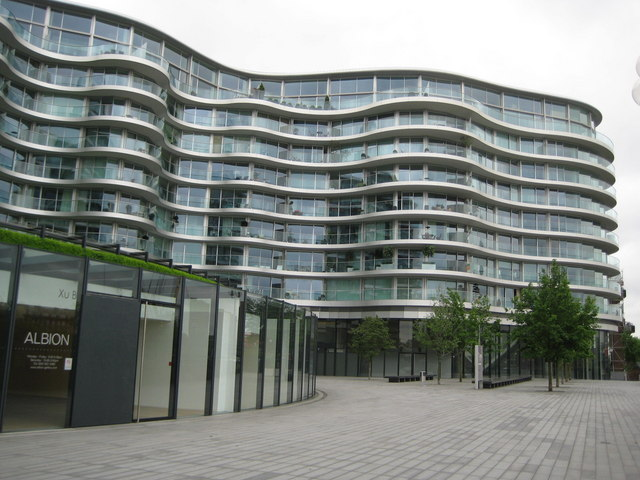 Battersea: Albion Riverside (1)